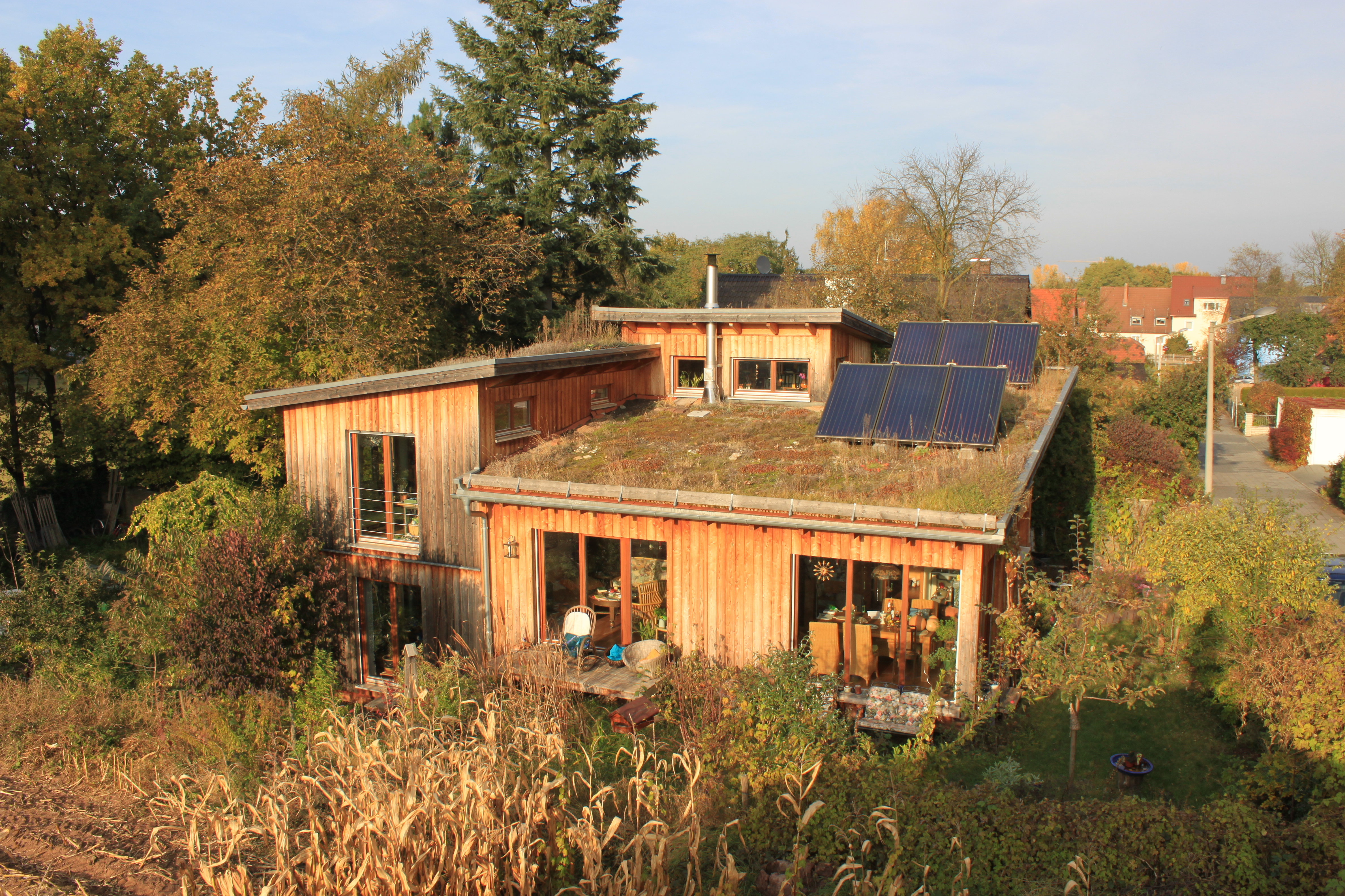 Ballon framing house. Facade made from larchwood, no wood preservation. Green roof. Isolation made with sawdust and phragmites. Inner surface made from loam. Heater: German tiled stove and solar thermal collector. Fürth (Germany, Bavaria).